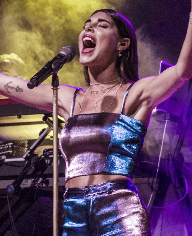 Bianca Atzei during her summer tour in 2018